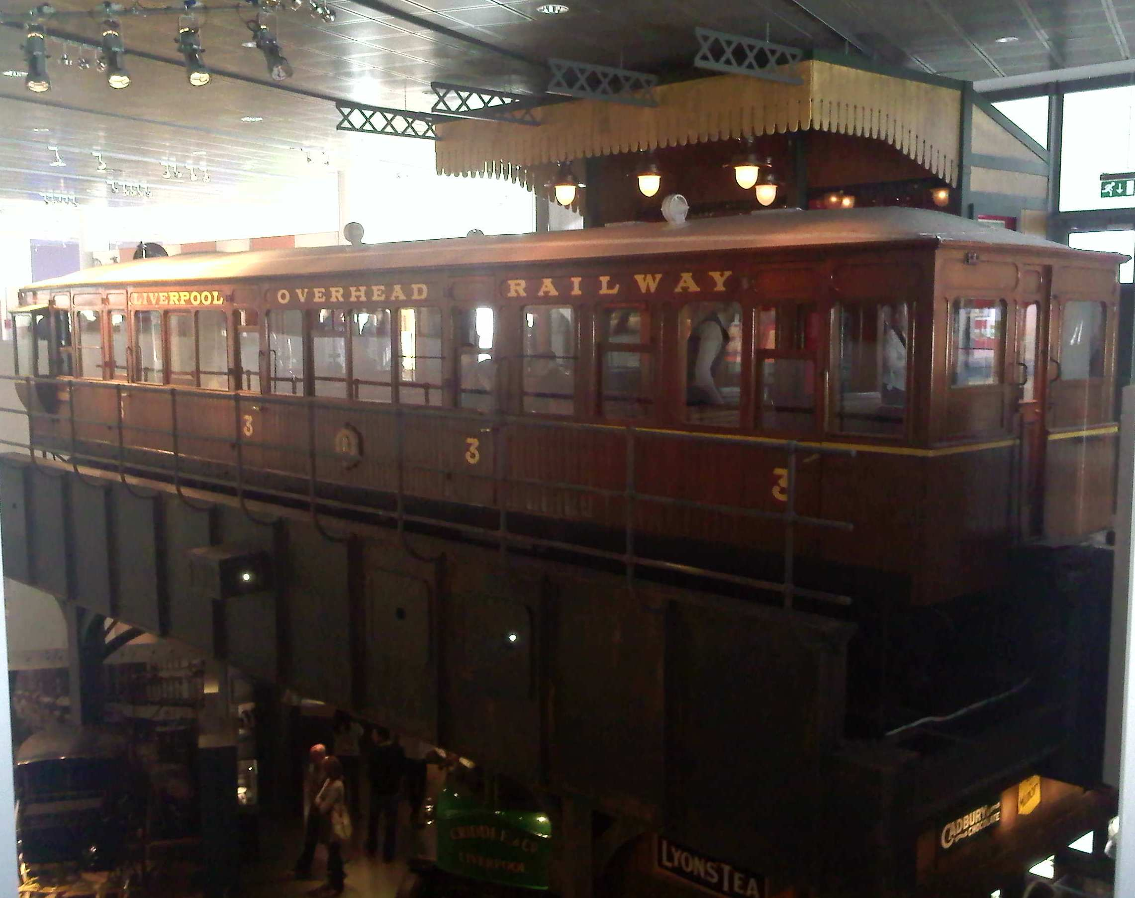 Liverpool Overhead Railway carriage in the Museum of Liverpool, 2012